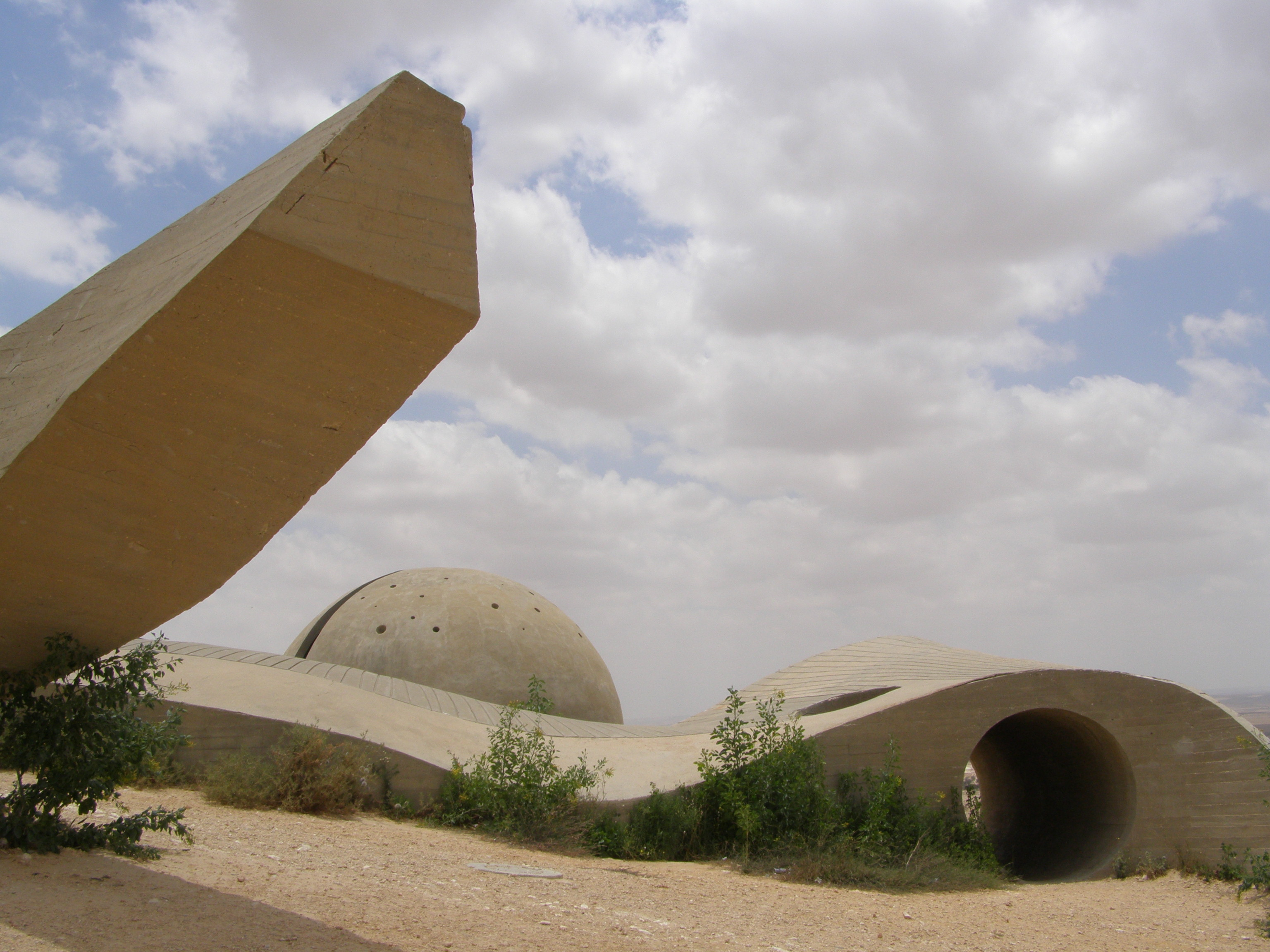 Beersheba, Monument to the Negev Brigade, Bunker